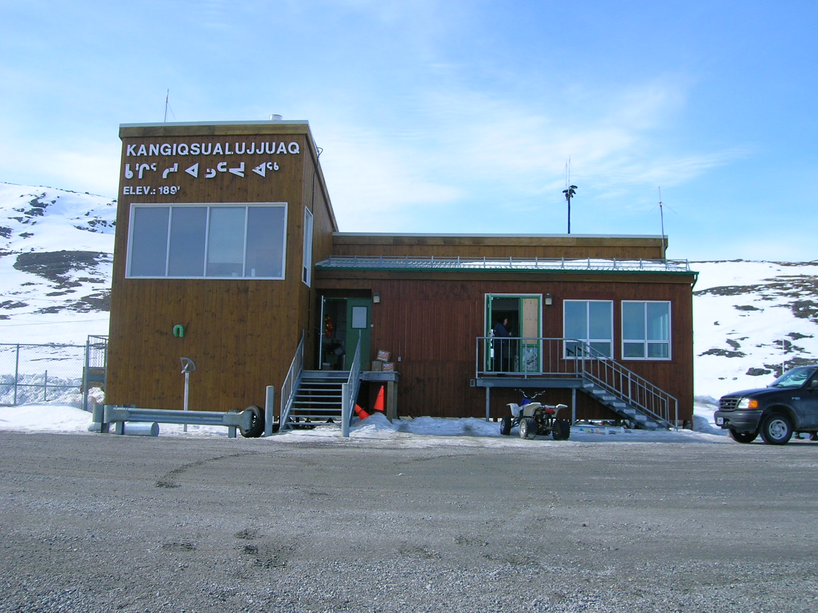 The airport of the village of Kangiqsualujjuaq.